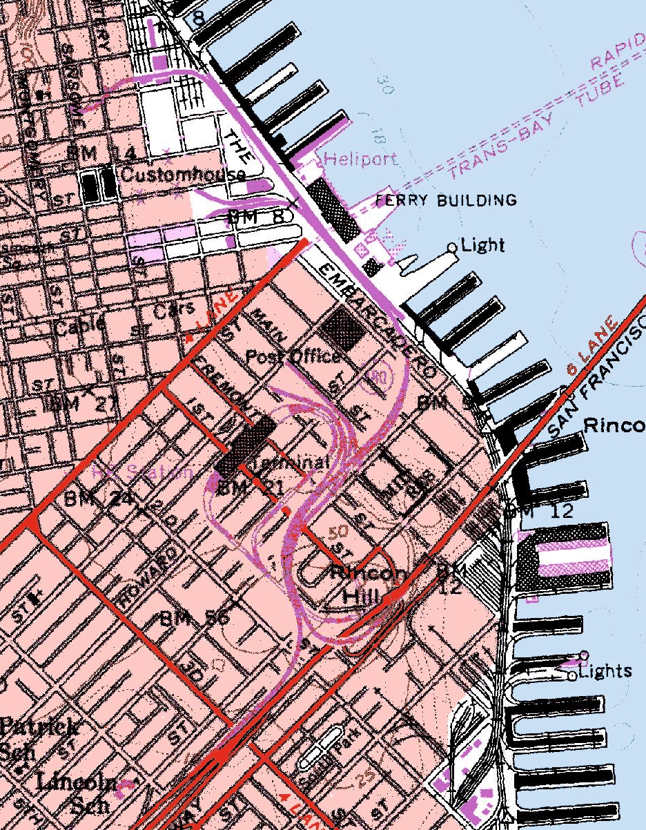 1998 USGS topographic map showing the now-gone Embarcadero Freeway (purple)